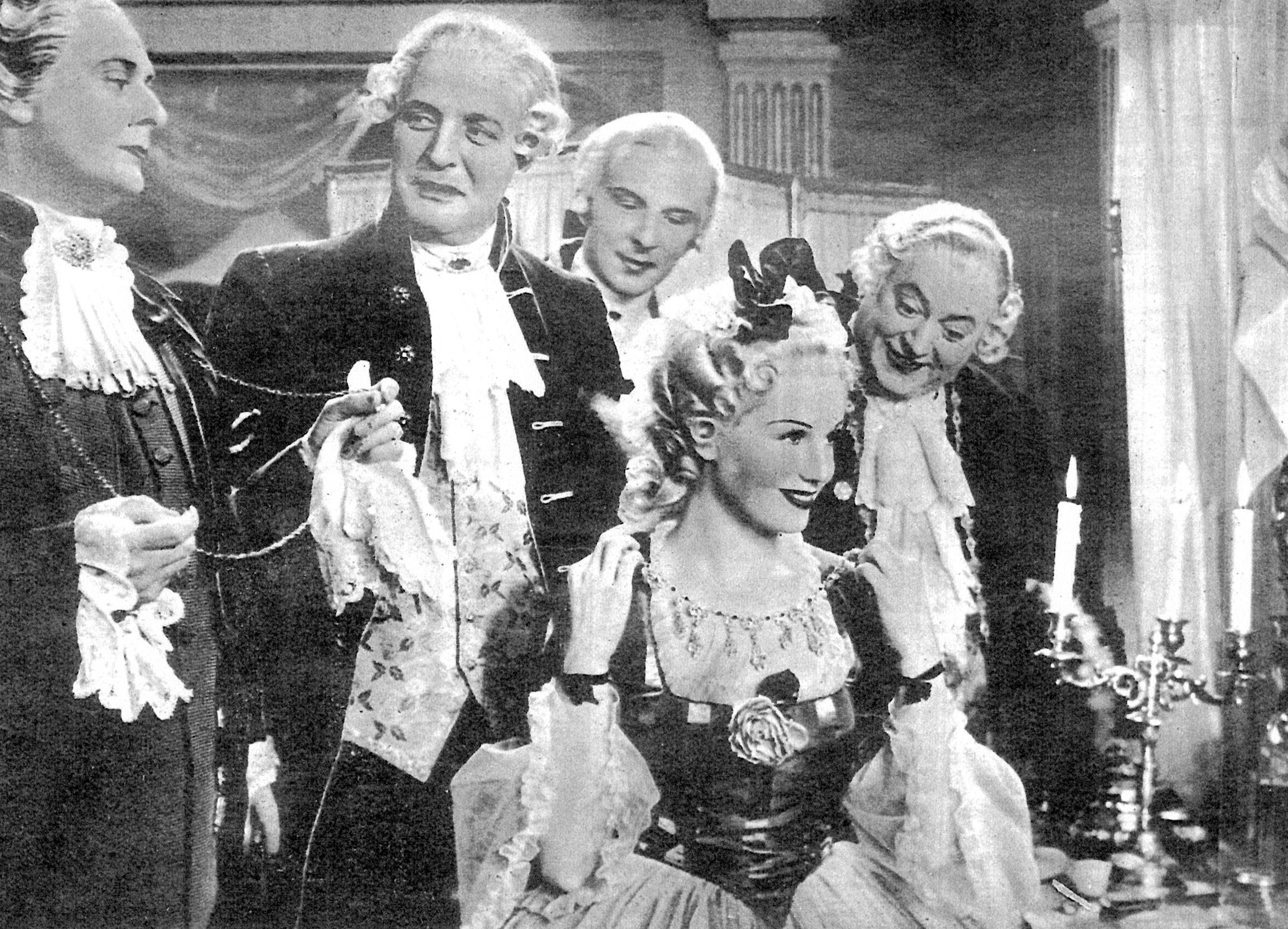 Norina, interpretata da Laura Solari, circondata dai cicisbei nel "Don Pasquale" (Mastrocinque, 1940)